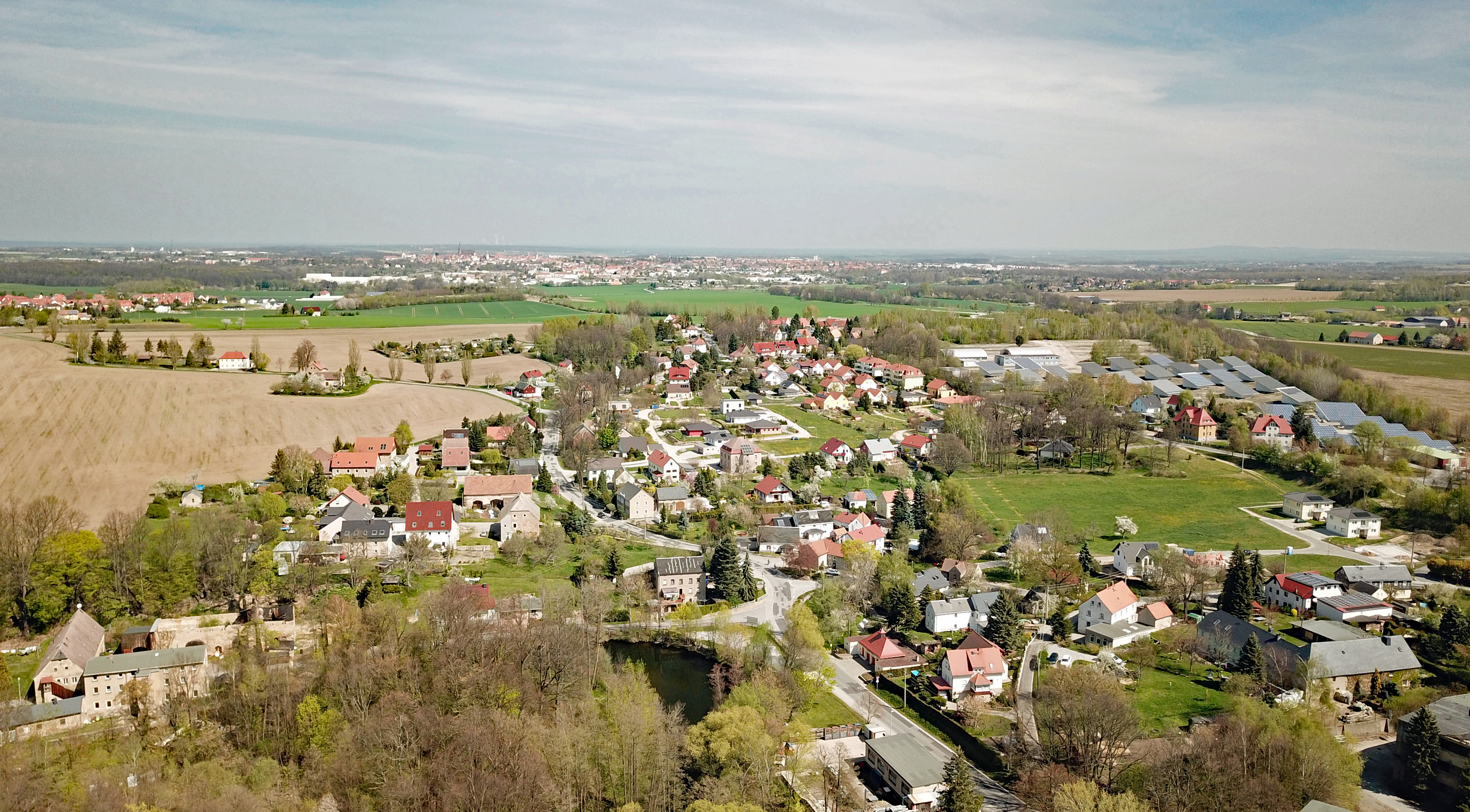 Singwitz, Obergurig, Saxony, Germany Hornjoserbsce: Powětrowy wobraz Dźěžnikec